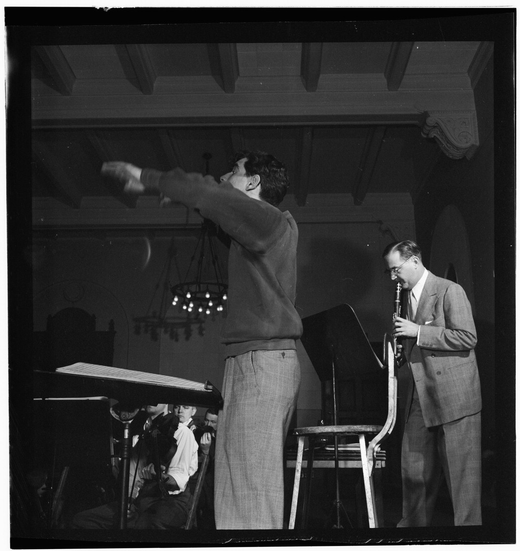 Benny Goodman, Leonard Bernstein, and Max Hollander, Carnegie Hall,_New York, N.Y., between 1946 and 1948